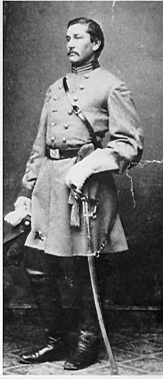 Col. Harry Gilmor, 2nd Maryland Cavalry, CSA Note: Cdv studio portrait of a man, standing, full length, 3/4 pose facing subject's right; in Confederate uniform with Confederate captain insignia on collar, wearing gauntlets on left hand that is resting on sword hilt at side, holding gauntlets and hat in right hand, drape and table on far left, patterned floor; handwritten on obverse, "Col. Harry Gilmer;" handwritten on reverse, "Col. Harry Gilmer;" stamped on reverse, "Published by E. & H. T. Anthony, 501 Broadway, New York, Manufacturers of the best Photographic Albums;" The American Civil War Museum Catalog Number 0985.05.00228